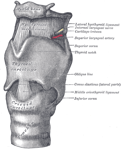 The ligaments of the larynx. Antero-lateral view.